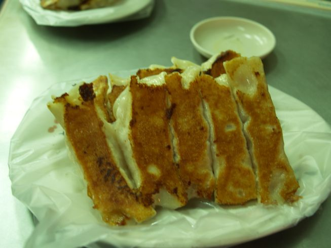 Guotie in Ningxia Night Market.